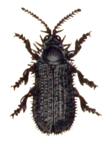 Hispa atra, from Calwer's Käferbuch, Table 42, Picture 13. Taxonomy was updated to 2008, using mostly the sites Fauna Europaea and BioLib. Please contact Sarefo if the determination is wrong!